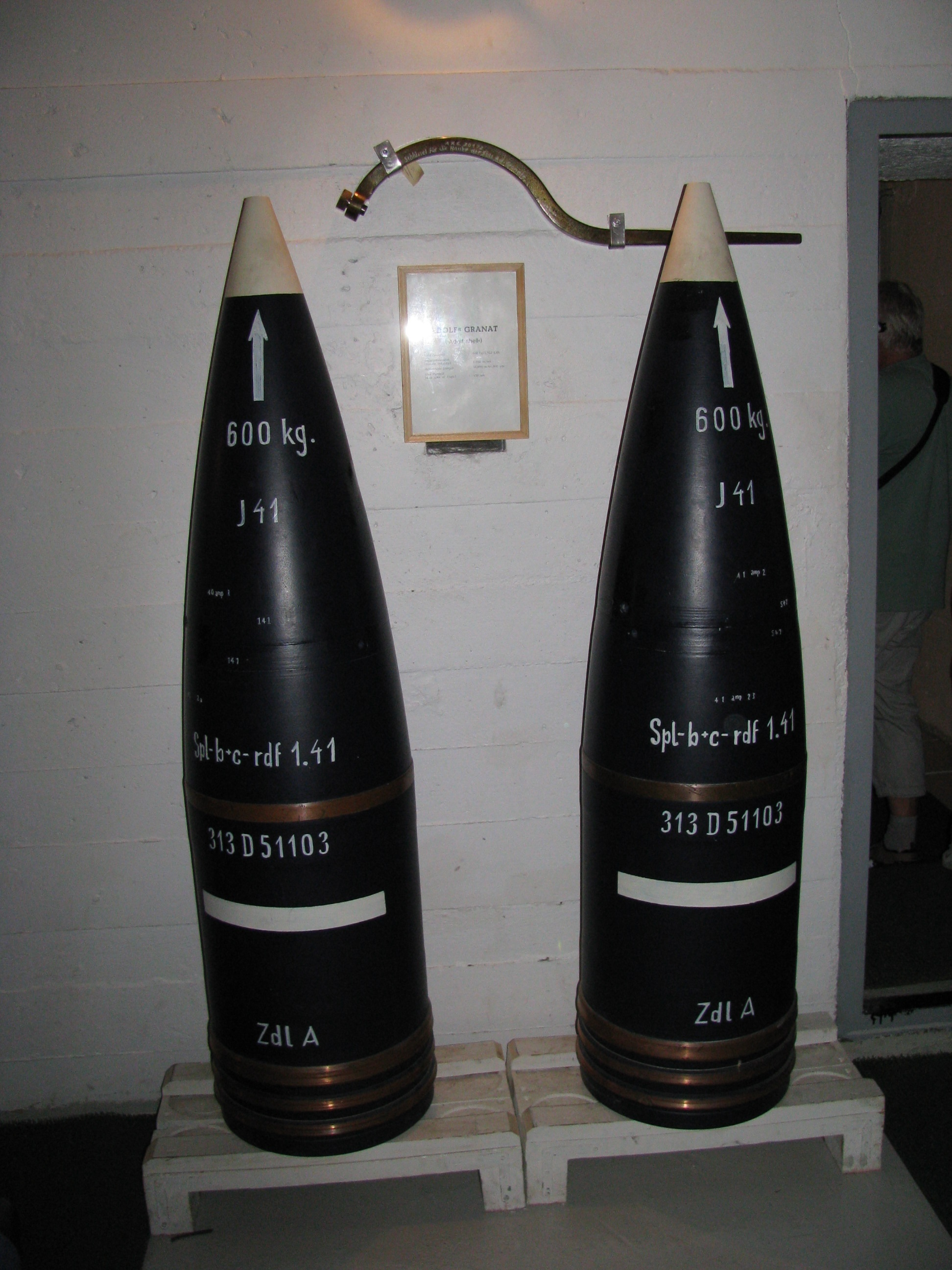 The two remaining "Adolf-shells" in the Adolf Gun bunker in Harstad, Norway. These shells were much lighter (600 kg) than the normal shells (1030 kg) used by the four 400 mm Adolf guns to allow a longer range of 56 km (versus 42 km). The maximum ceiling in the ballistic trajectory was 21,000 meter (70,000 ft) or twice as high as a passenger jet flies. This gun was built by the Germans in WW2 in Harstad, Norway, but never fired in anger. The gun was operated by the Norwegian armed forces in the 1950s, the largest gun ever used by the Norwegian armed forces.